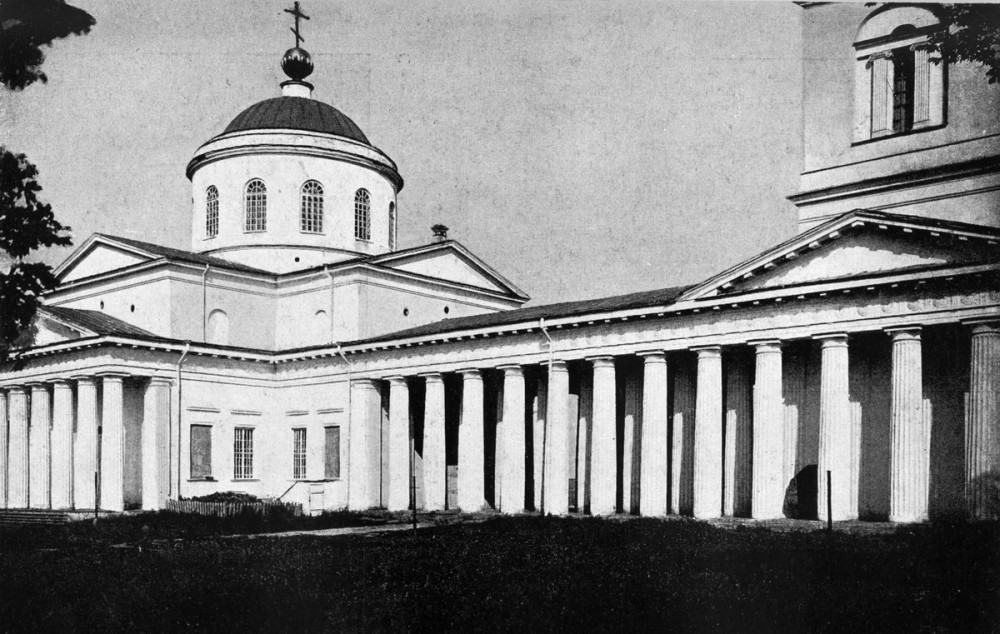 Interior of the Church of the Saviour's Transfiguration in Veliky Burluk